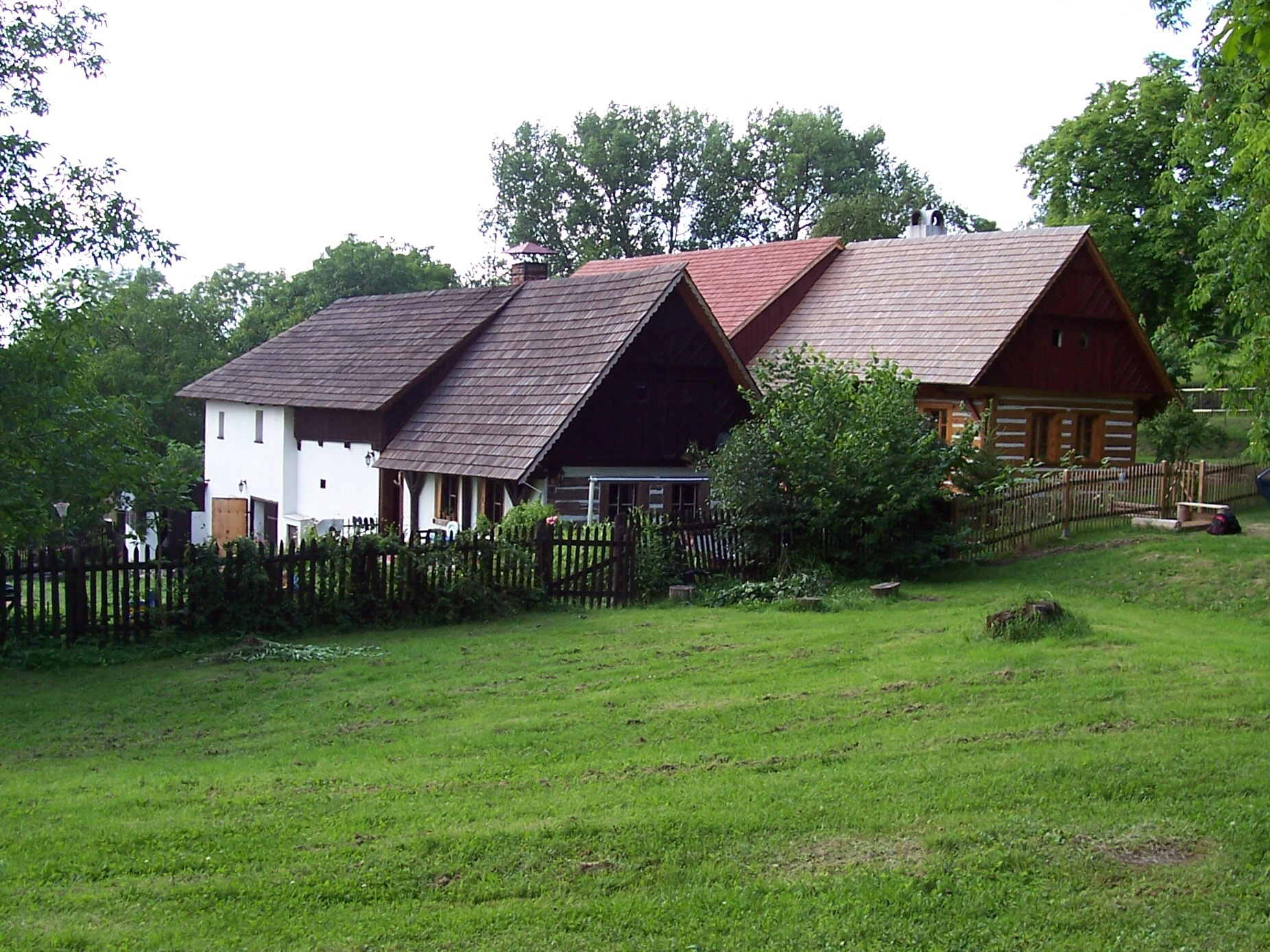 Boseň in Mladá Boleslav District, part Mužský, Czech Republic. Vernacular architecture.